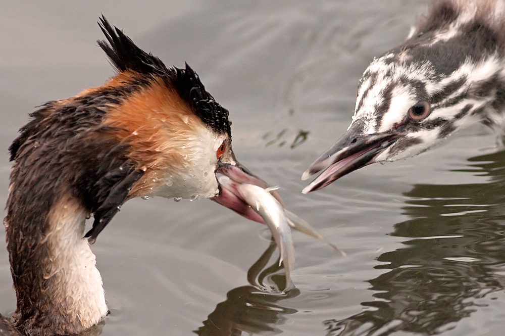 An adult Great Crested Grebe with two fish to feed its young in Hogganfield Loch, Glasgow, Scotland.